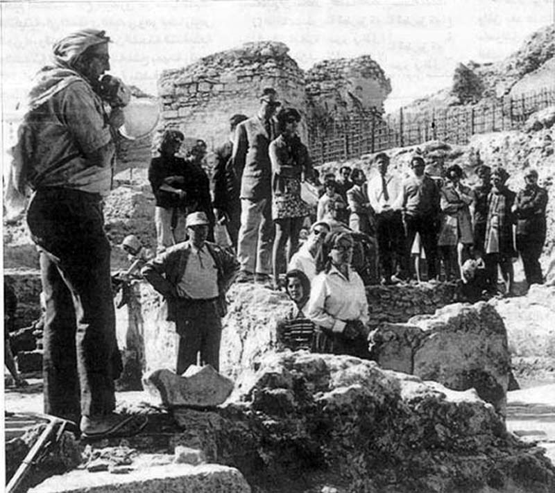 The Danish archaeological expedition to Bahrain in search of the ruins of the Dilmun civilisation in the 1950s. Seen in the photo is archaeologist Geoffrey Bibby in the excavated site of the Bahrain Fort.